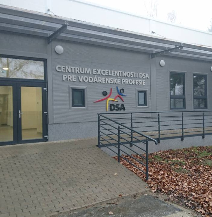 Centrum excelentosti DSA v Trebisove